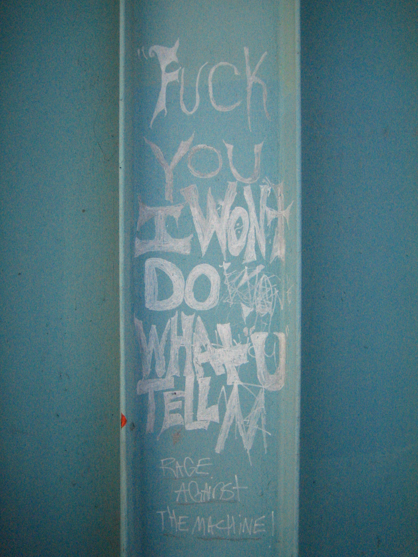 Graffito near San Bruno, California, with lyrics from the song Killing in the Name by Rage Against the Machine